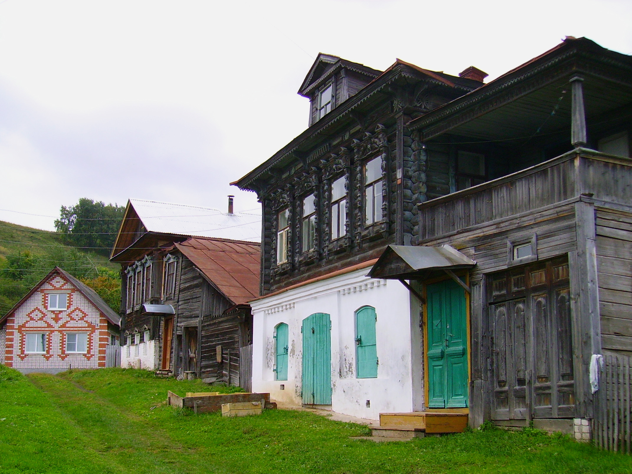 Priokskaya Street